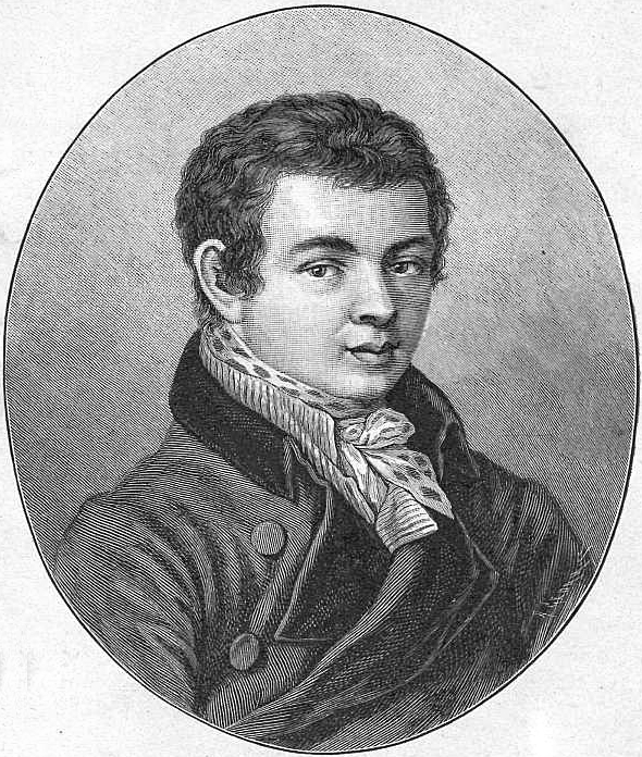 Vasyl Karazin